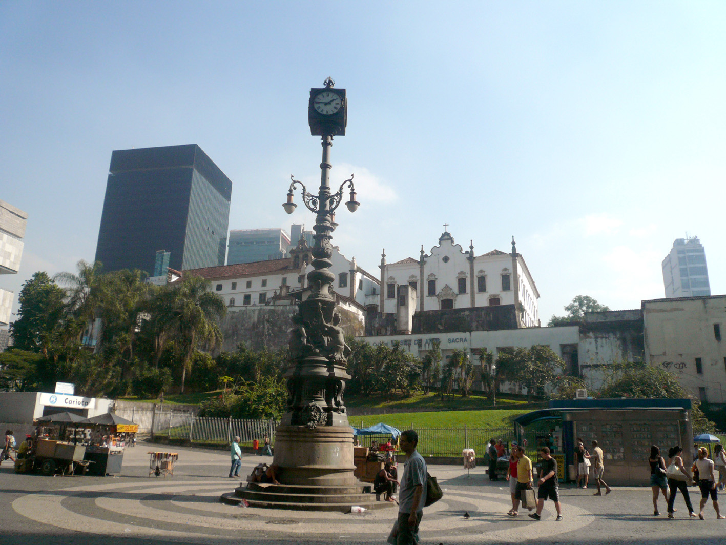 Largo da Carioca (Carioca Square) in Rio de Janeiro, Brazil